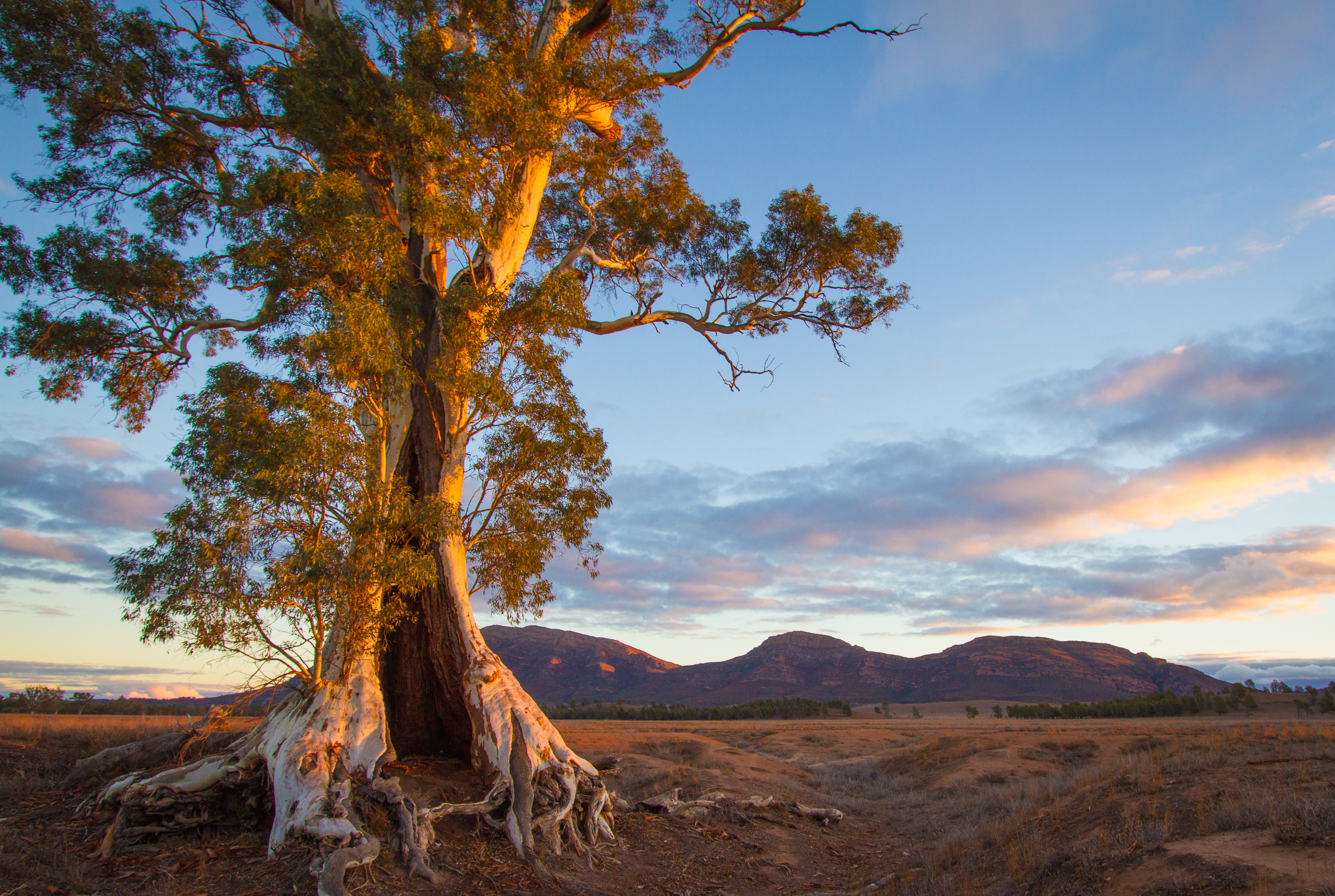 Cazneaux Tree Flinders Ranges South Australia [Explored]